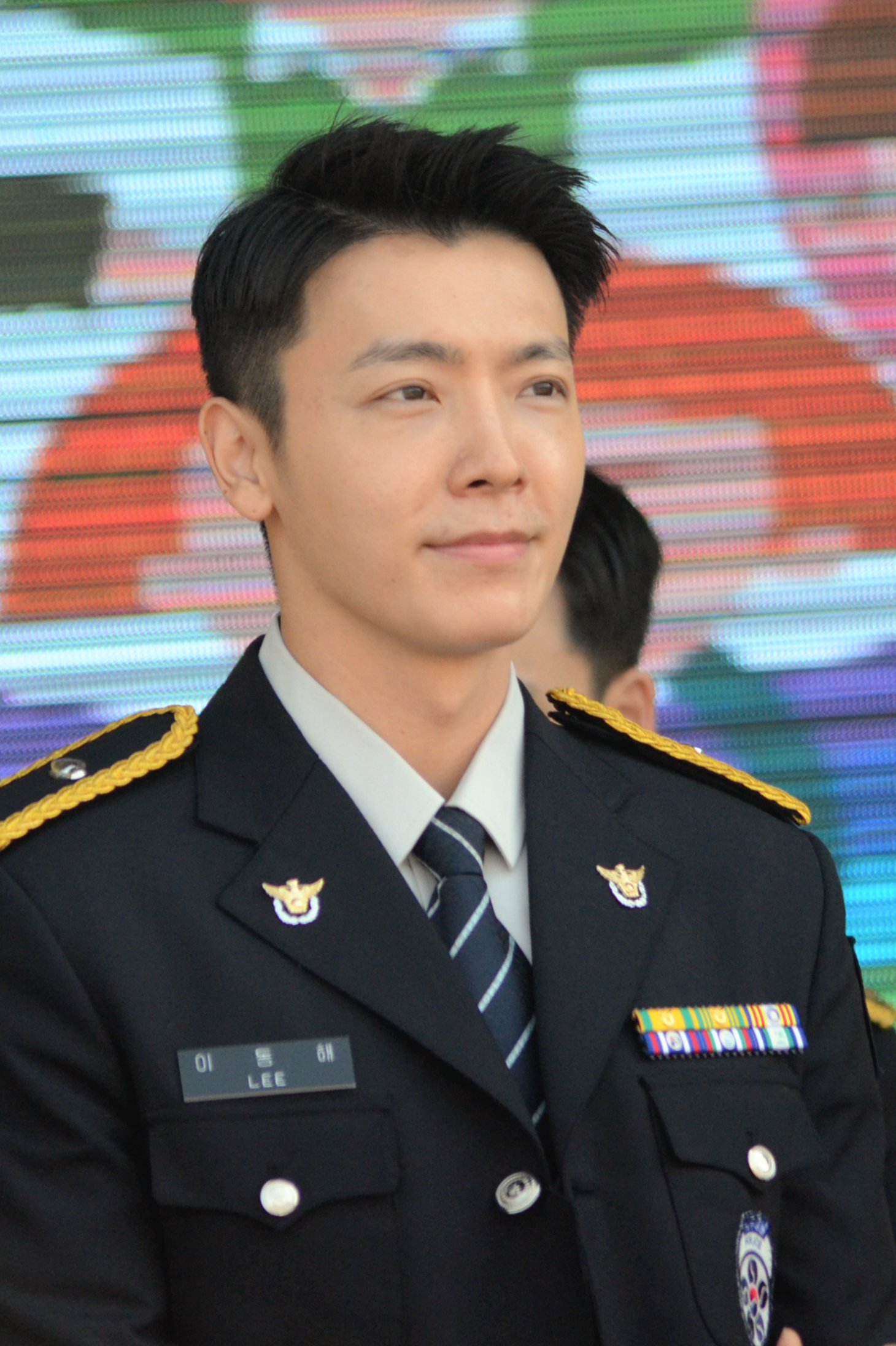 Donghae at U-Clean Concert